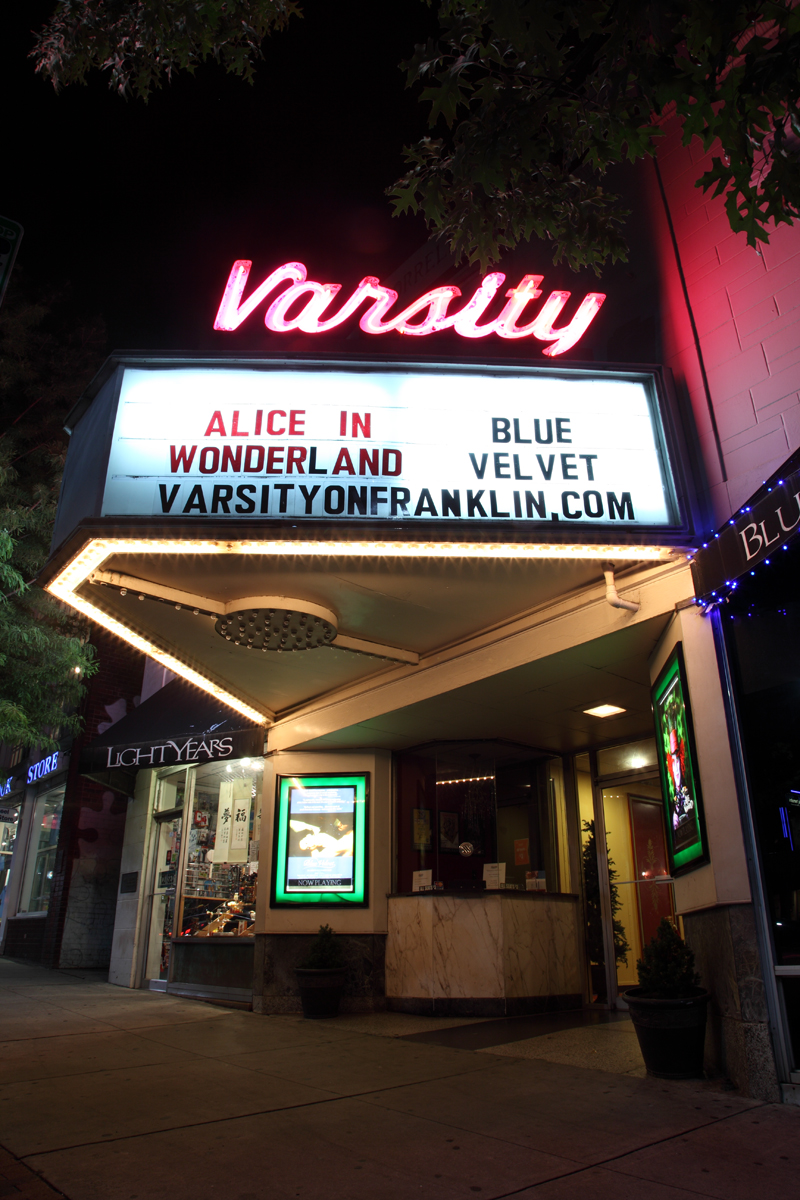 The Varsity Theatre at night on Franklin Street in Chapel Hill, North Carolina.